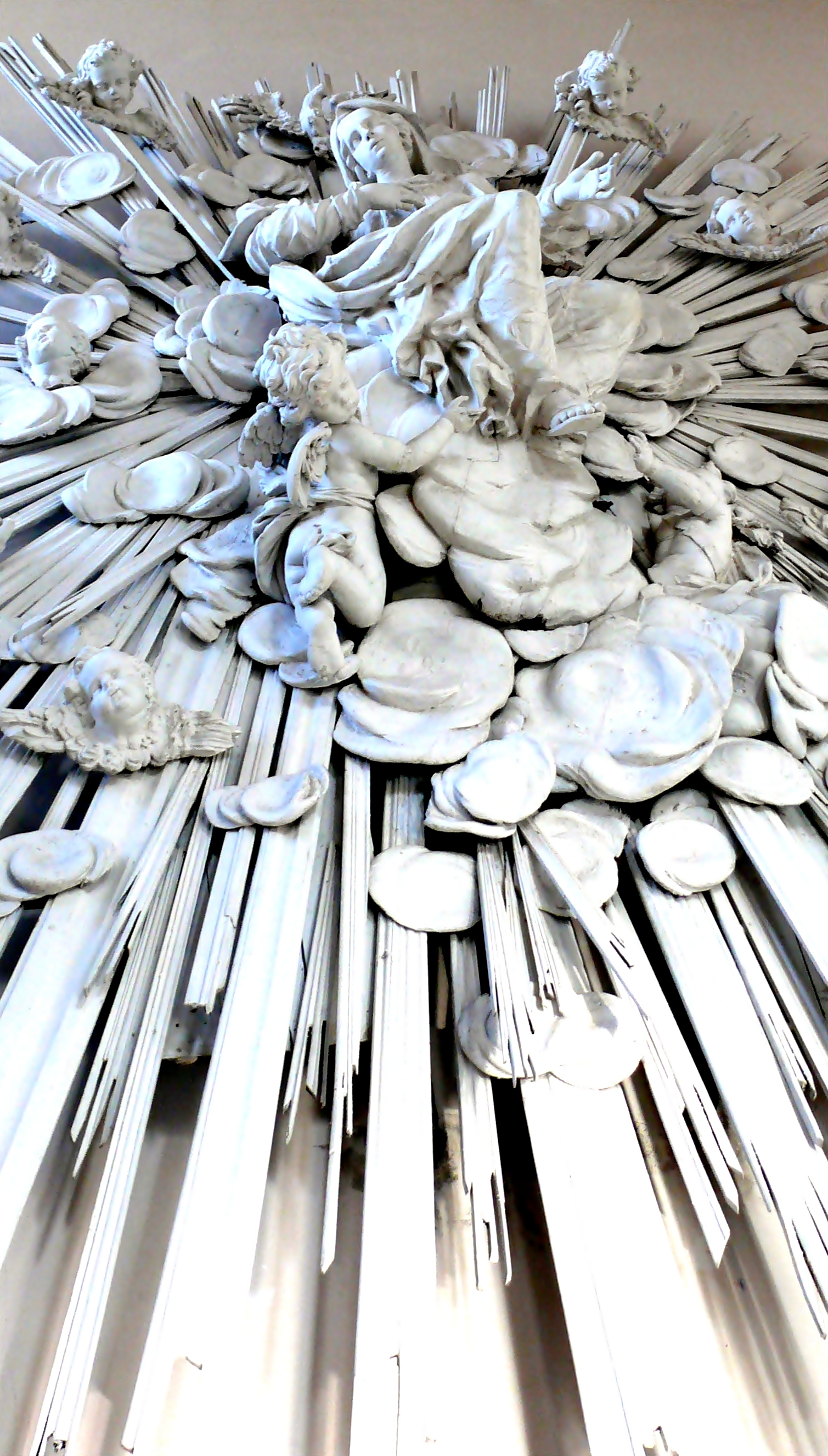 Sculpture of the Assumption of Mary attributed to Nicolas Lecreux (1734-1799). The sculpture was originally in the Church of St Margaret (the ancient abbatiale St Médard). It was unveiled in the Church of the Seminary of Tournai on 24 March 2006.